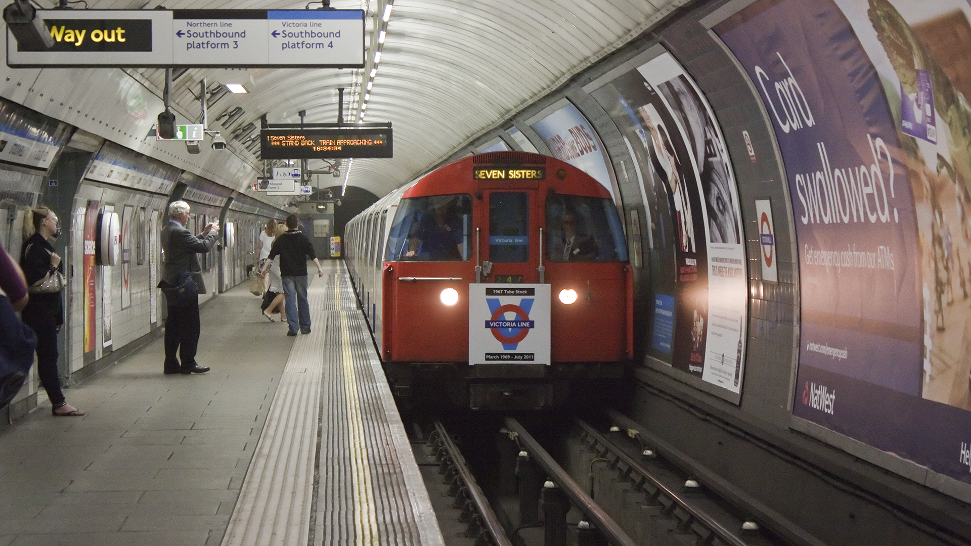 It even has its own Sparta Remix now. Look it up on YouTube.